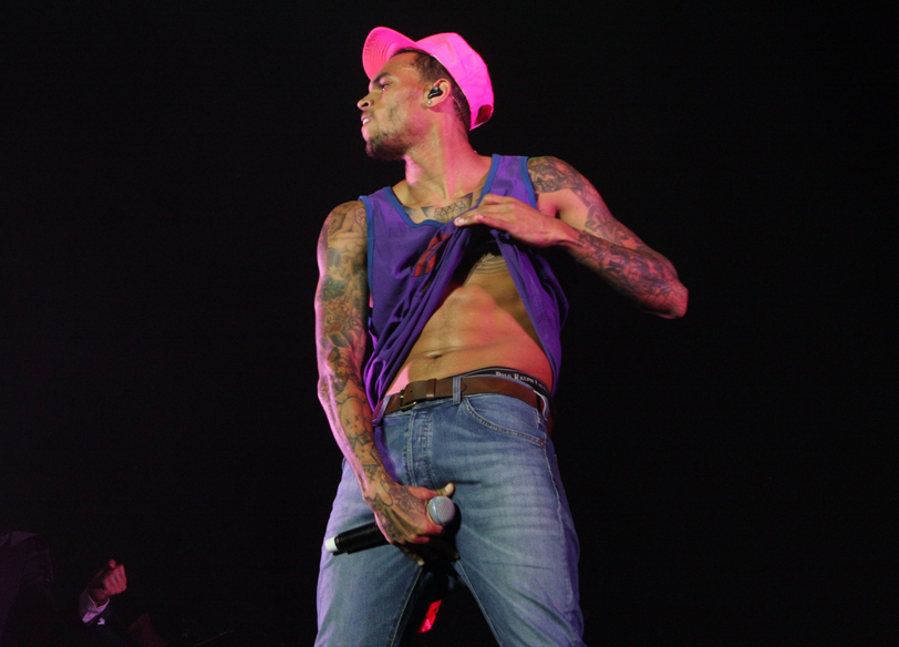 Chris Brown Performs at Supafest 3 Sydney, Australia 2012.